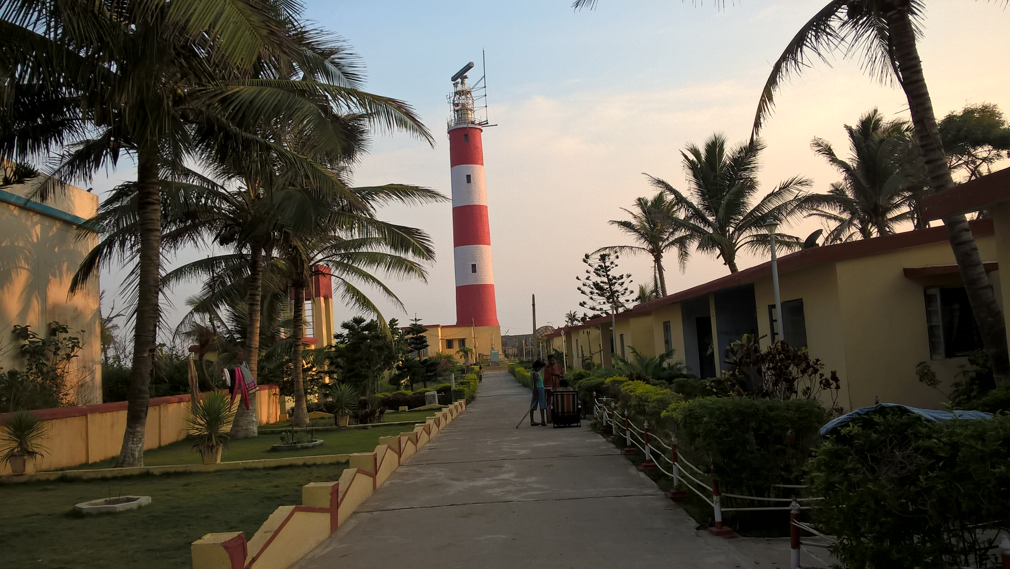 GOPALPUR PORT LIGHT HOUSE ODISHAଓଡ଼ିଆ: ଗୋପାଳପୁର ବନ୍ଦର ବତୀଘର, ବୃହତ୍ତର ବ୍ରହ୍ମପୁର, ଓଡ଼ିଶା